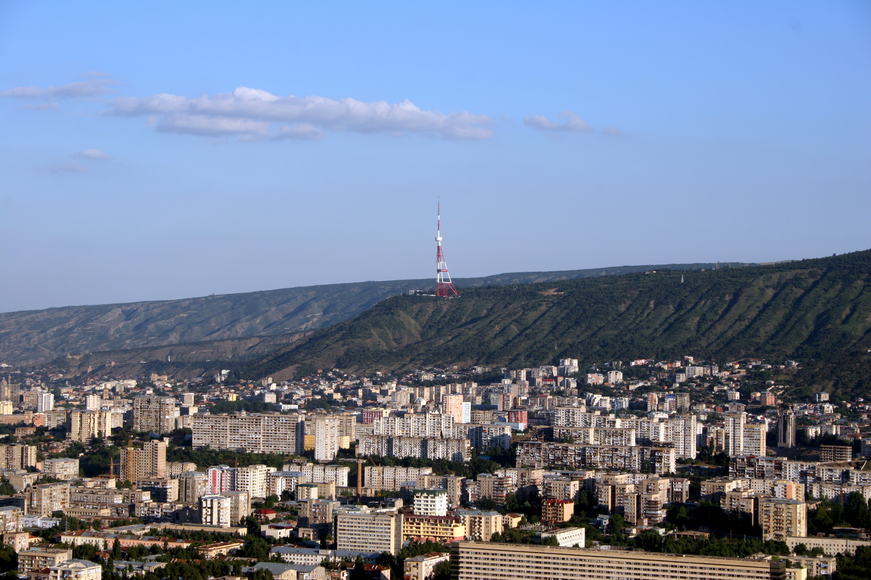 Aerial view of Vake-Saburtalo District, Tbilisi, Georgia